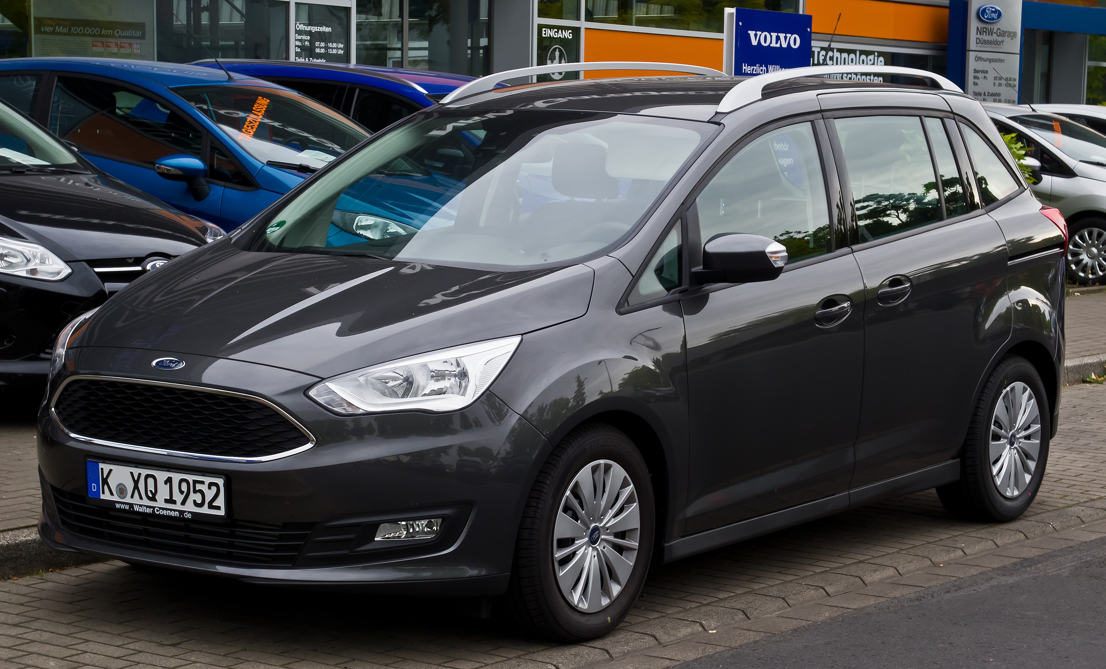 Ford Grand C-Max Trend (II, Facelift)